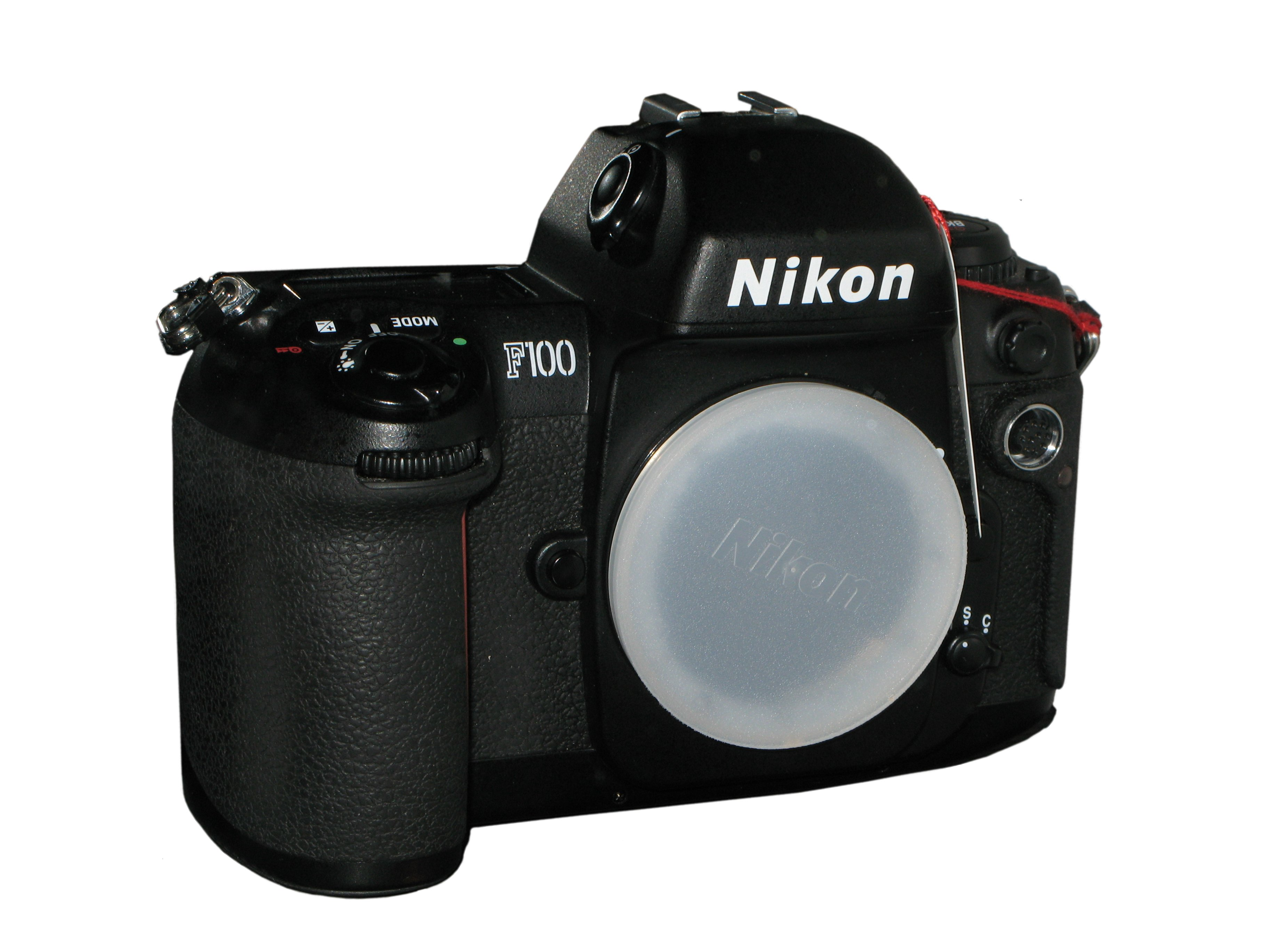 Nikon F100 SLR camera